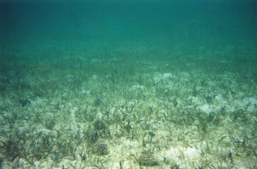 Seagrass (Thalassia testudinum) bed with several echinoids (Tripneustes ventricosus), Grahams Harbour, San Salvador Island, Bahamas. Taken 1999.